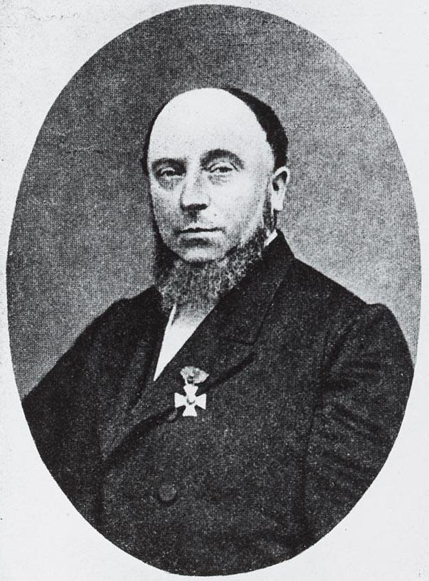 Julien Wolbers (1819-1889); Dutch historian & abolitionist.